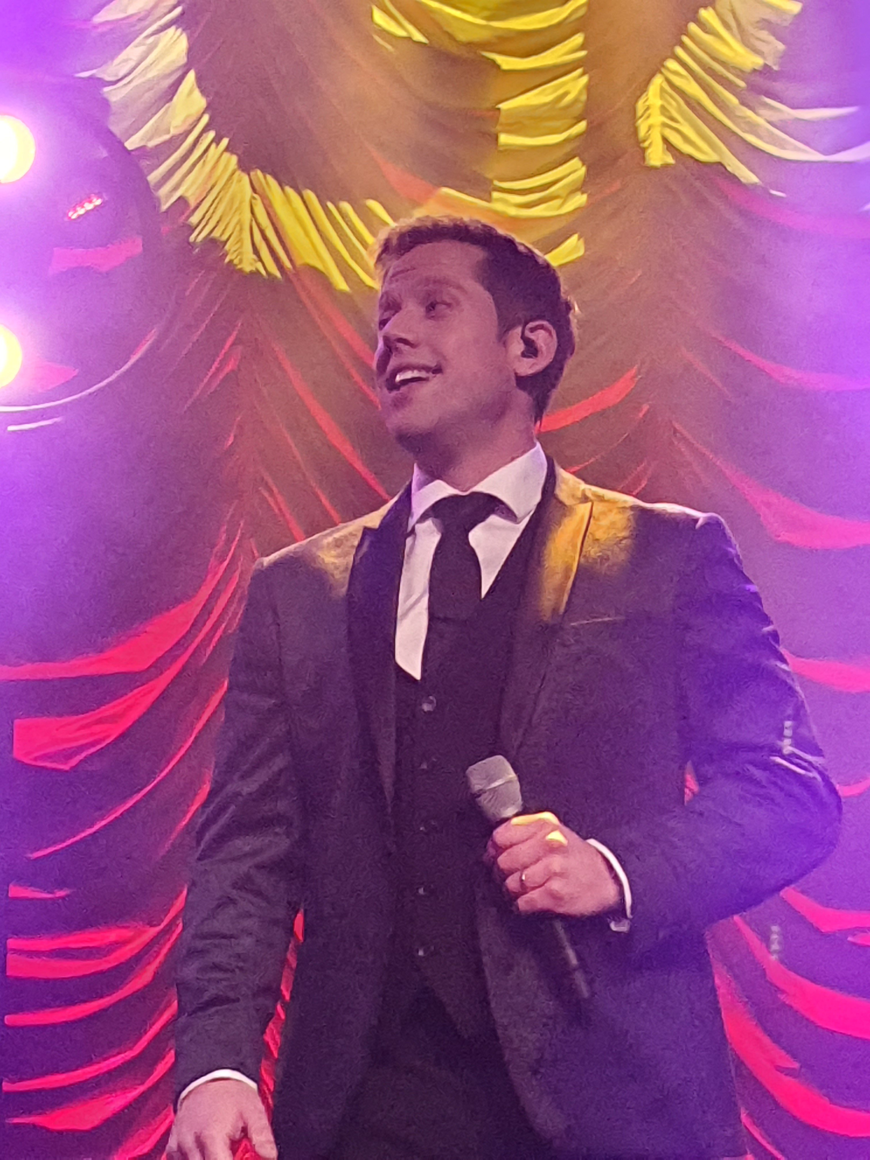 Duncan Sandilands on stage at The Alexandra in Birmingham 29.10.19